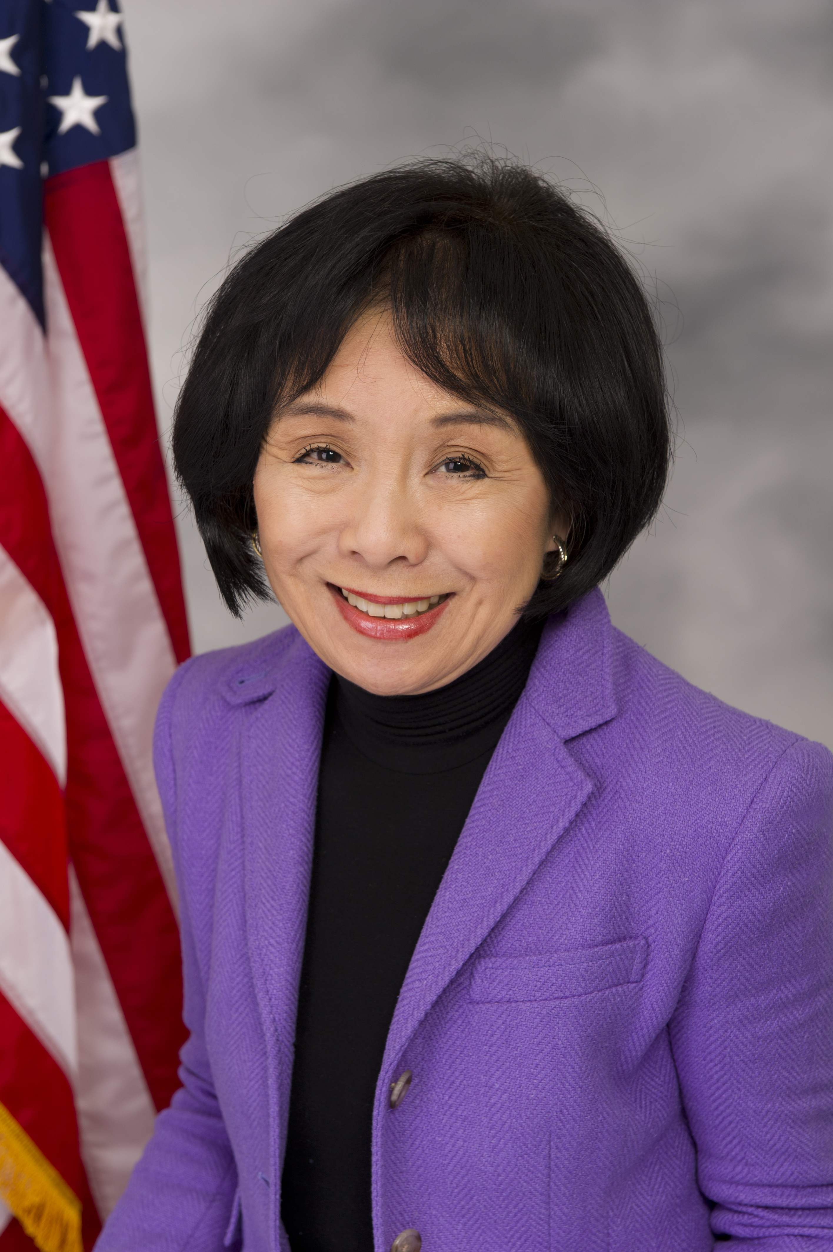 U.S. Rep. Doris Matsui (D-California)